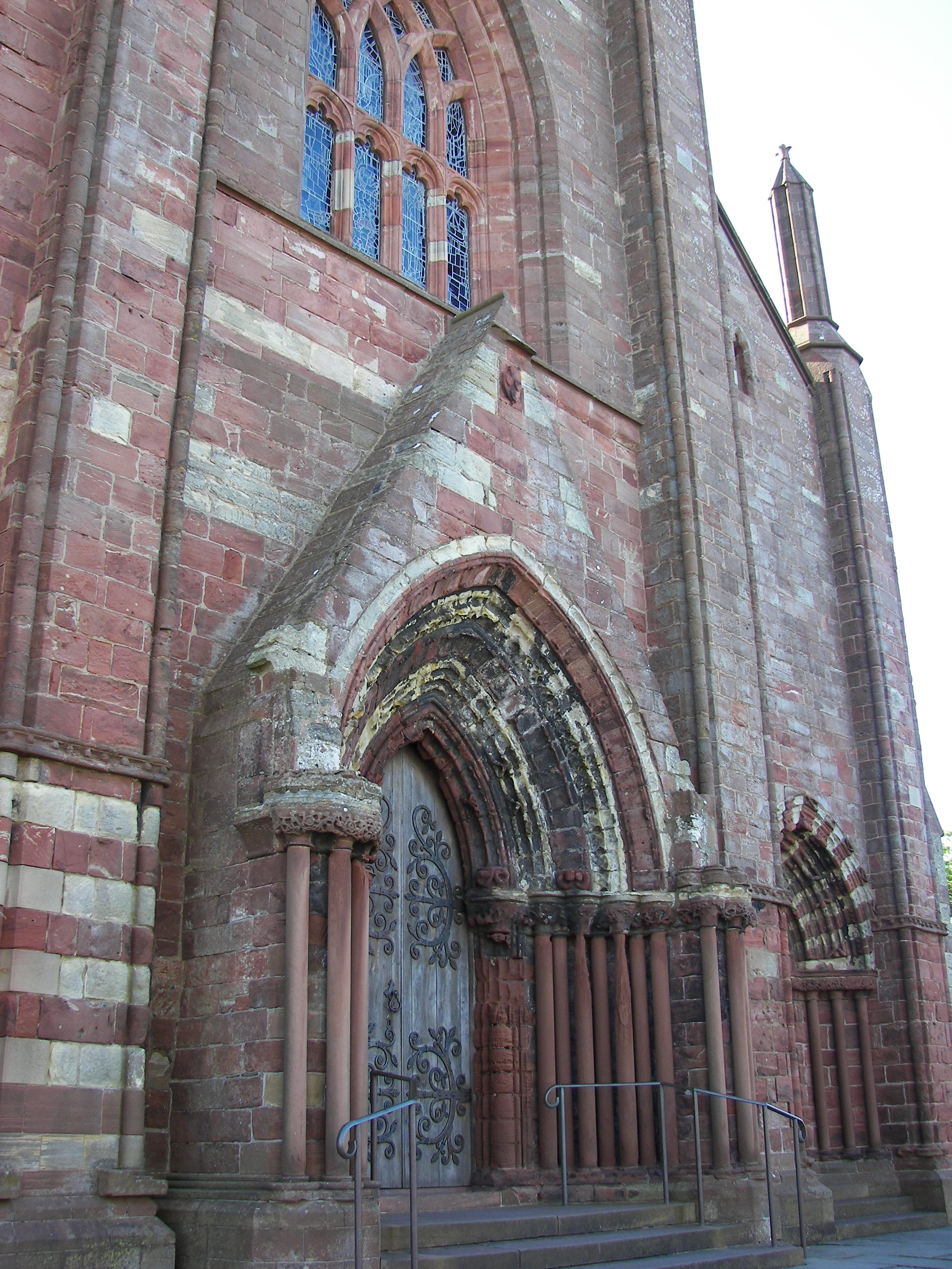 Closeup of front entrance to St. Magnus Cathedral in Kirkwall, Scotland.